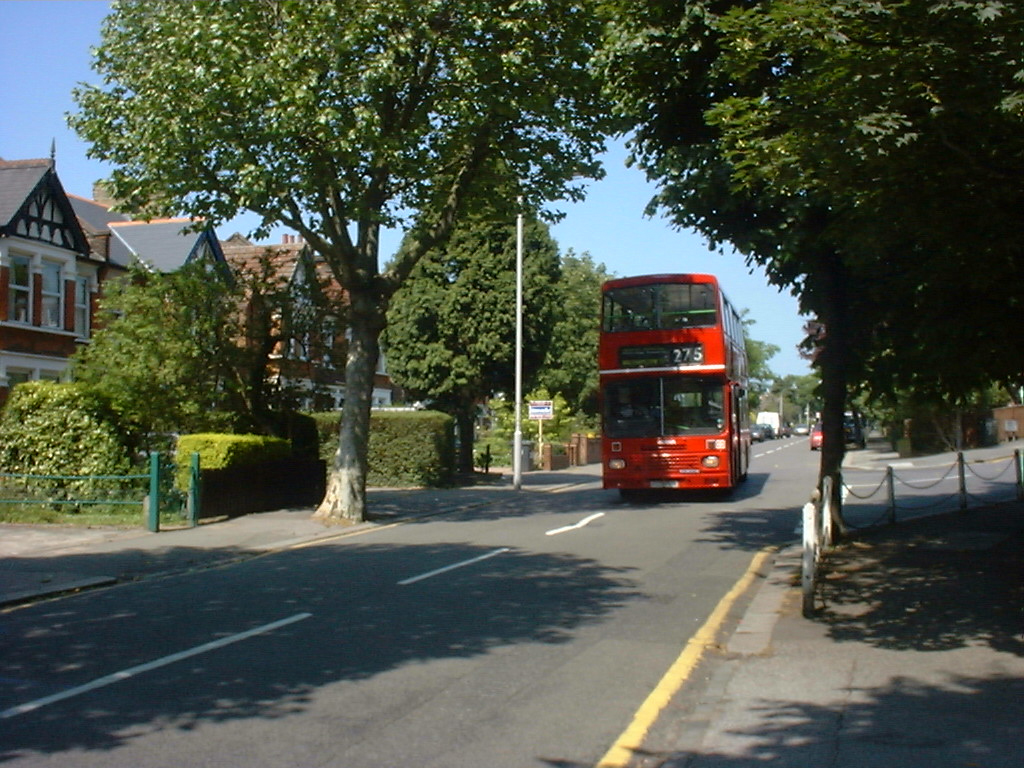 The Avenue Highams Park, Data from Geograph: Description: Bus on route 275 in "The Avenue" Highams Park heading towards Highams Park Station. ICBM: 51.6097653253, 0.0010676448423013 Location: (about 1 km from) near to Woodford, Redbridge, Great Britain.